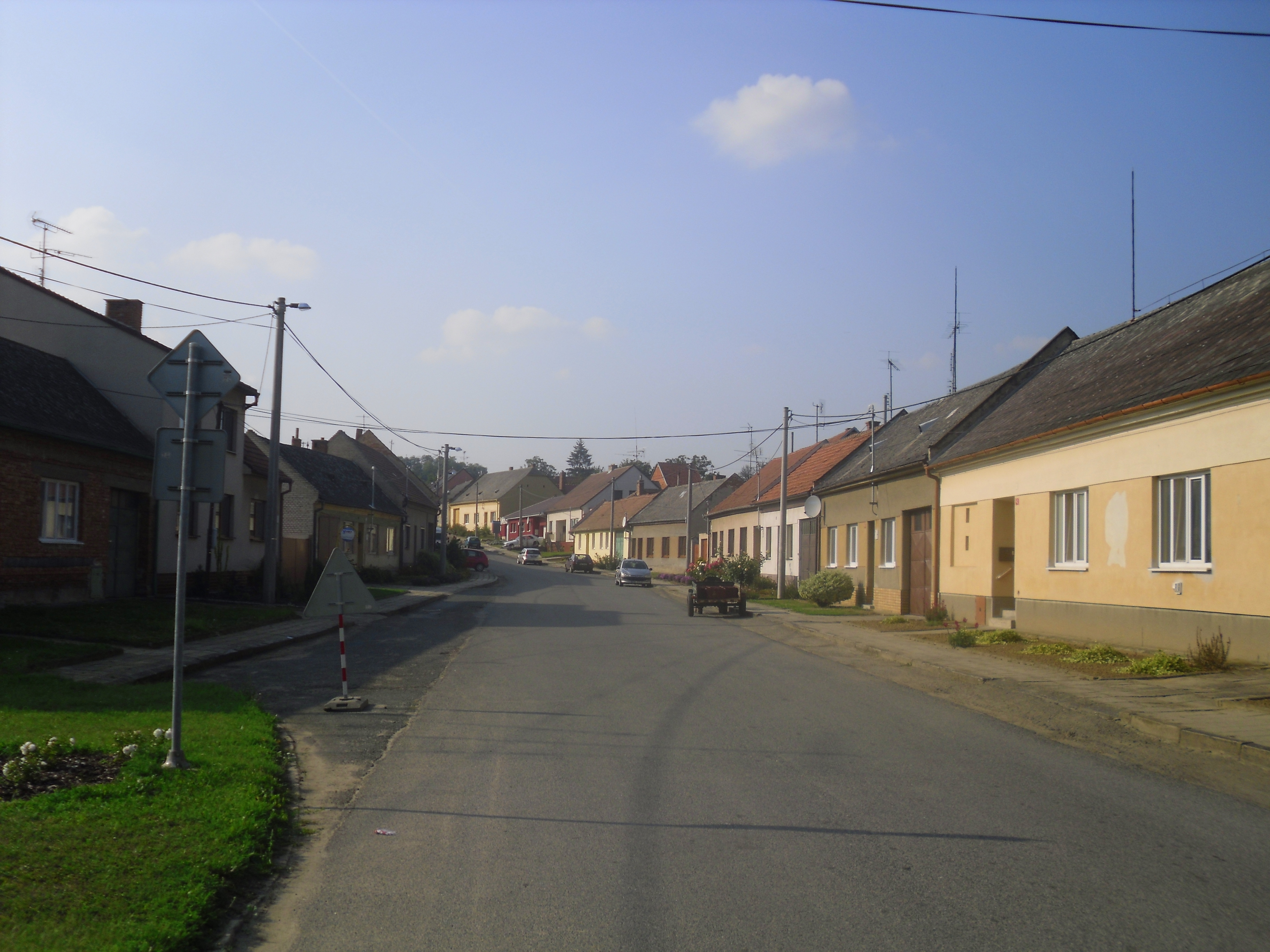 Skalka, Hodonín district, Czech Republic - village centre